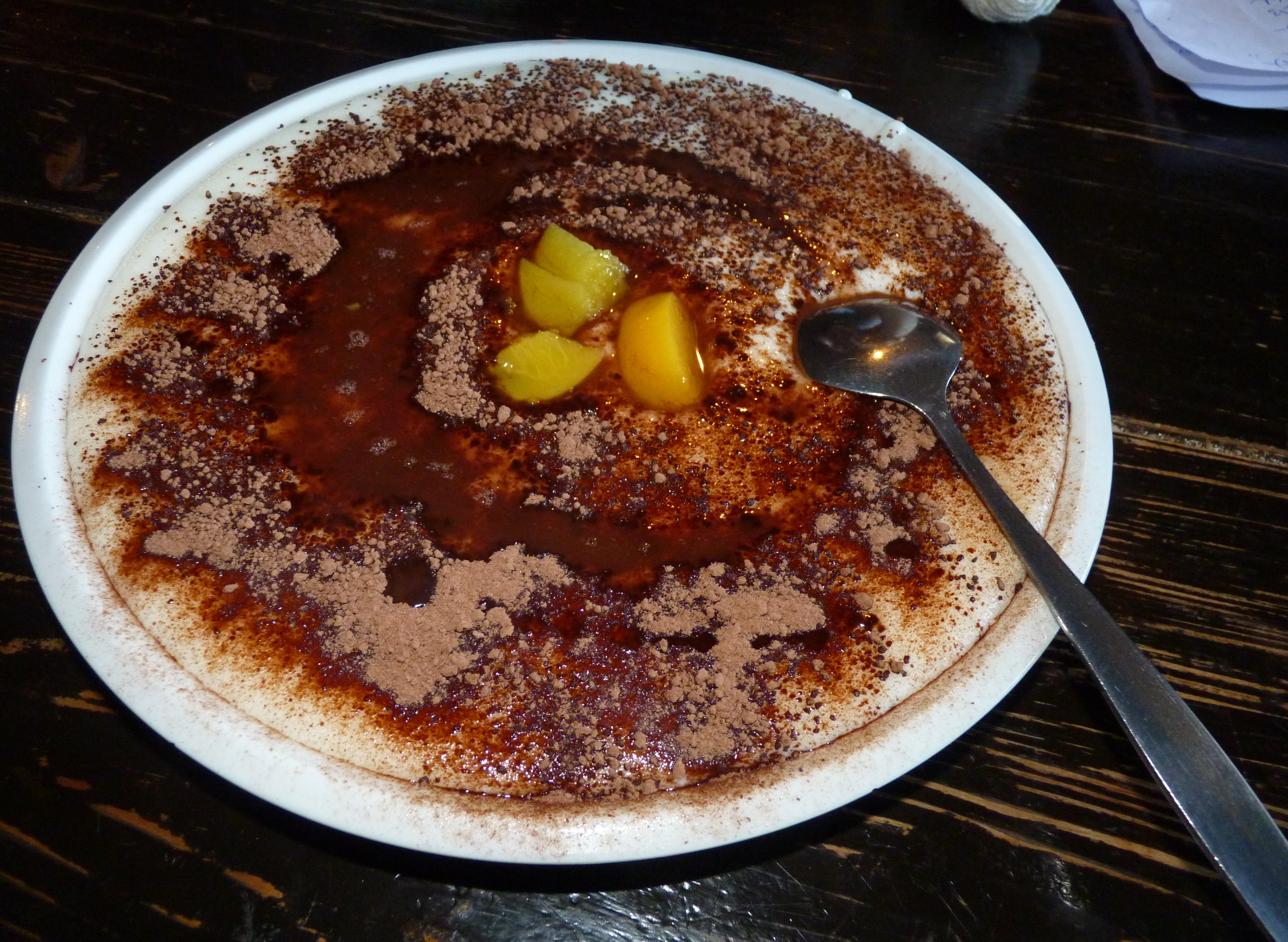 Mountain hut of general Milan Rostislav Stefanik - breakfast. Low Tatras, Slovakia